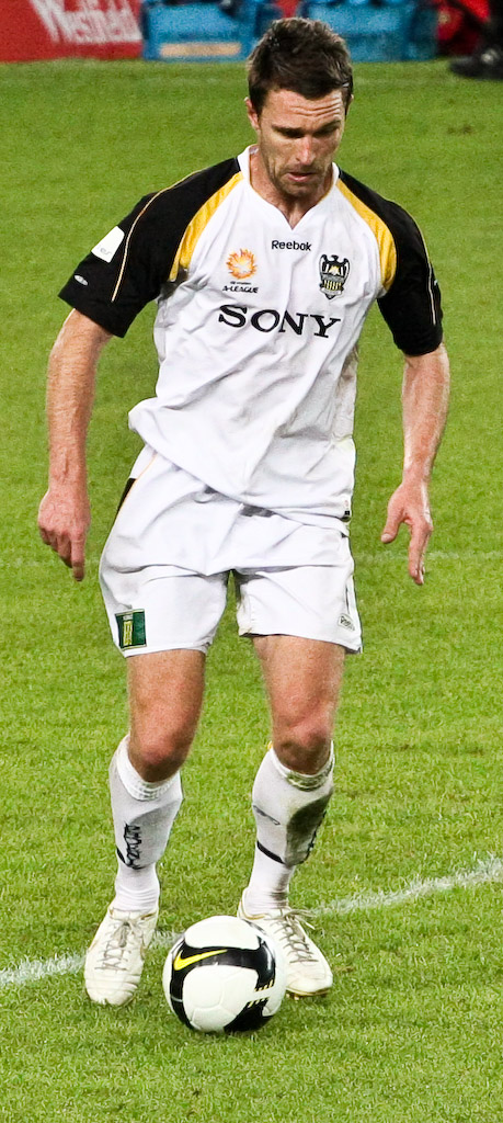 Tim Brown playing for Wellington Phoenix against Sydney FC in round 11 of the 08/09 A-League.